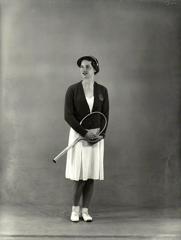 English tennis player Mary Hardwick by Bassano, whole-plate film negative, 28 March 1935